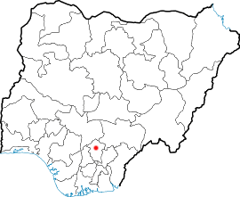 Map of Nigeria showing location of Enugu 21:24, 25 October 2005 . . Acntx (Talk / contribs) . . 270x221 (21,965 bytes)